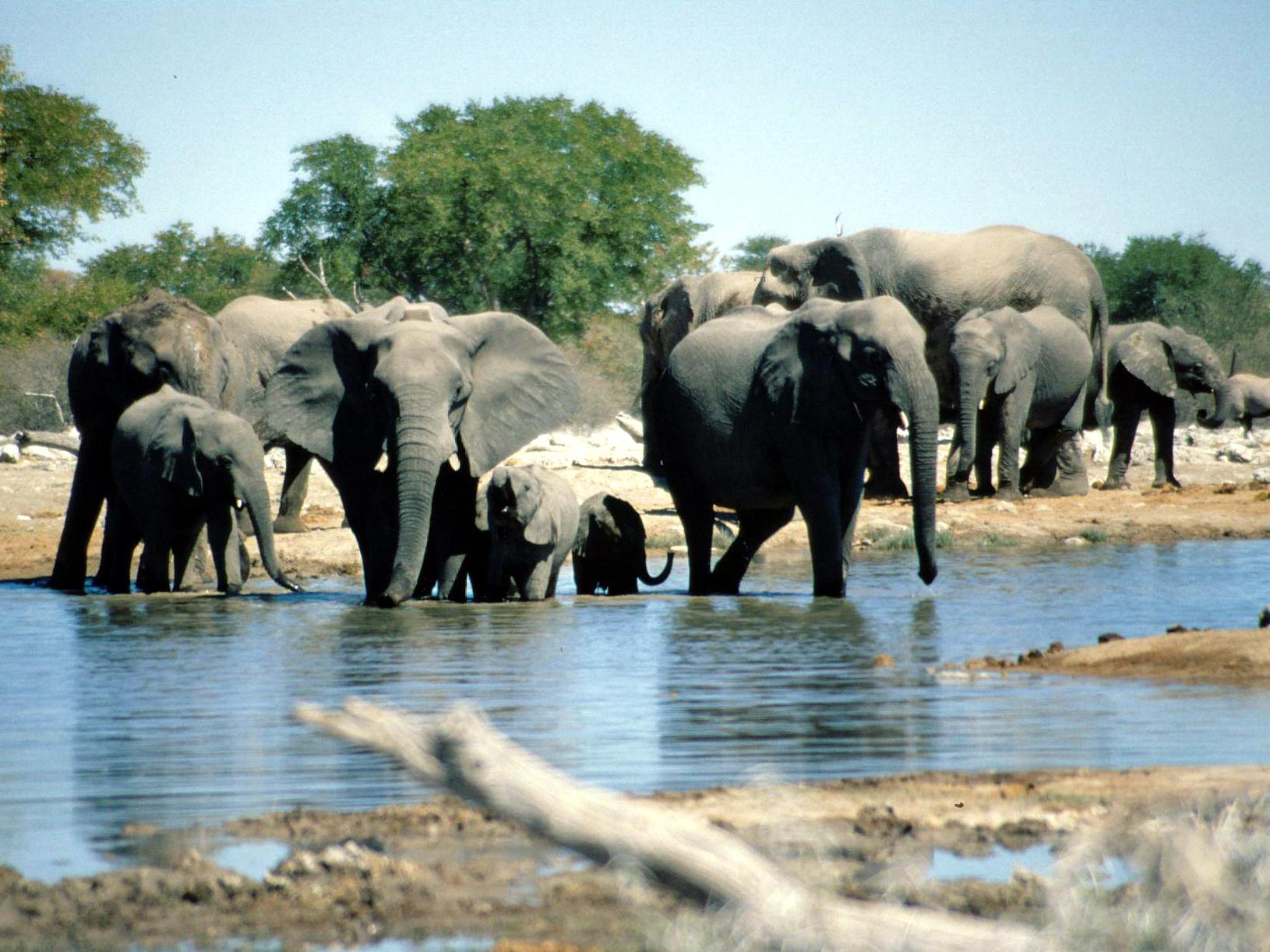 African Bush Elephants (Laxodonta africana), Etosha National Park, Namibia